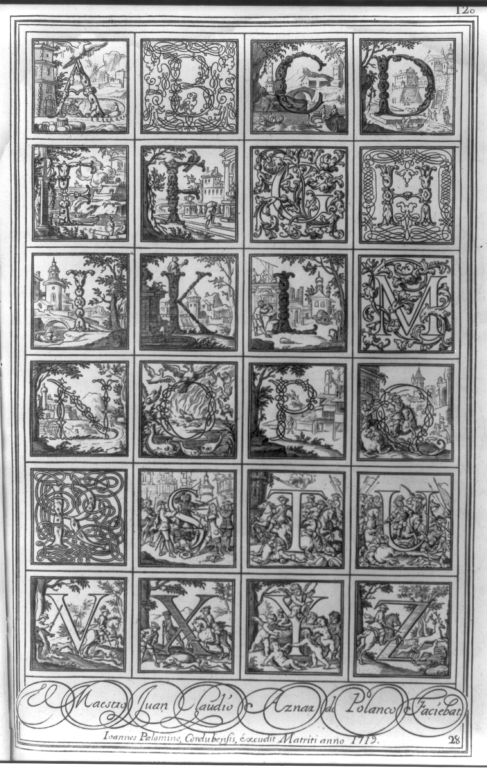 Title: Alphabet of 24 elaborate calligraphic designs Abstract/medium: 1 print : engraving.